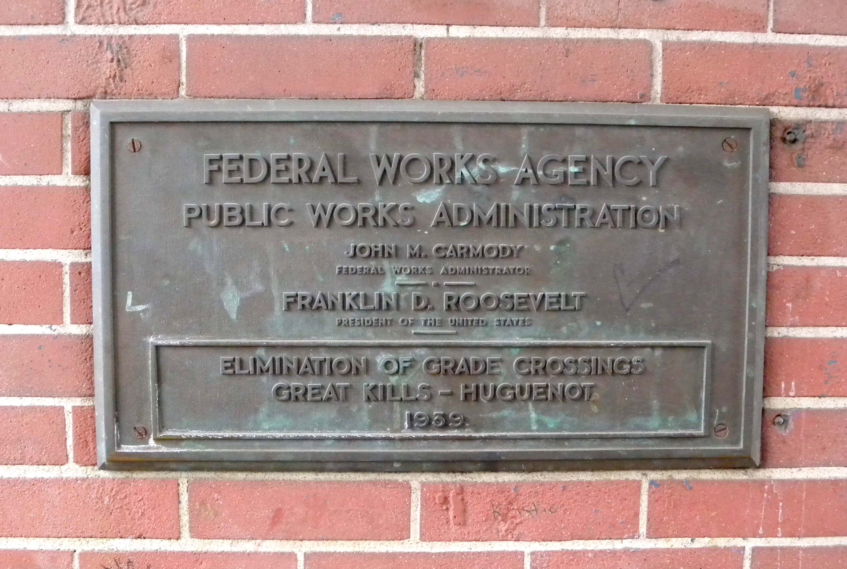 Looking east at plaque on stationhouse wall of Eltingville (Staten Island Railway station) on a cloudy afternoon. See also File:Eltingville si nb st jeh.JPG.